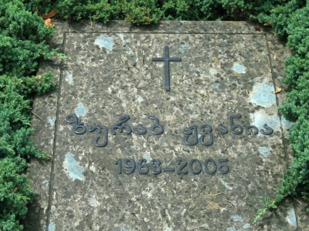 Headstone of Zurab Jvania in Didube Pantheon